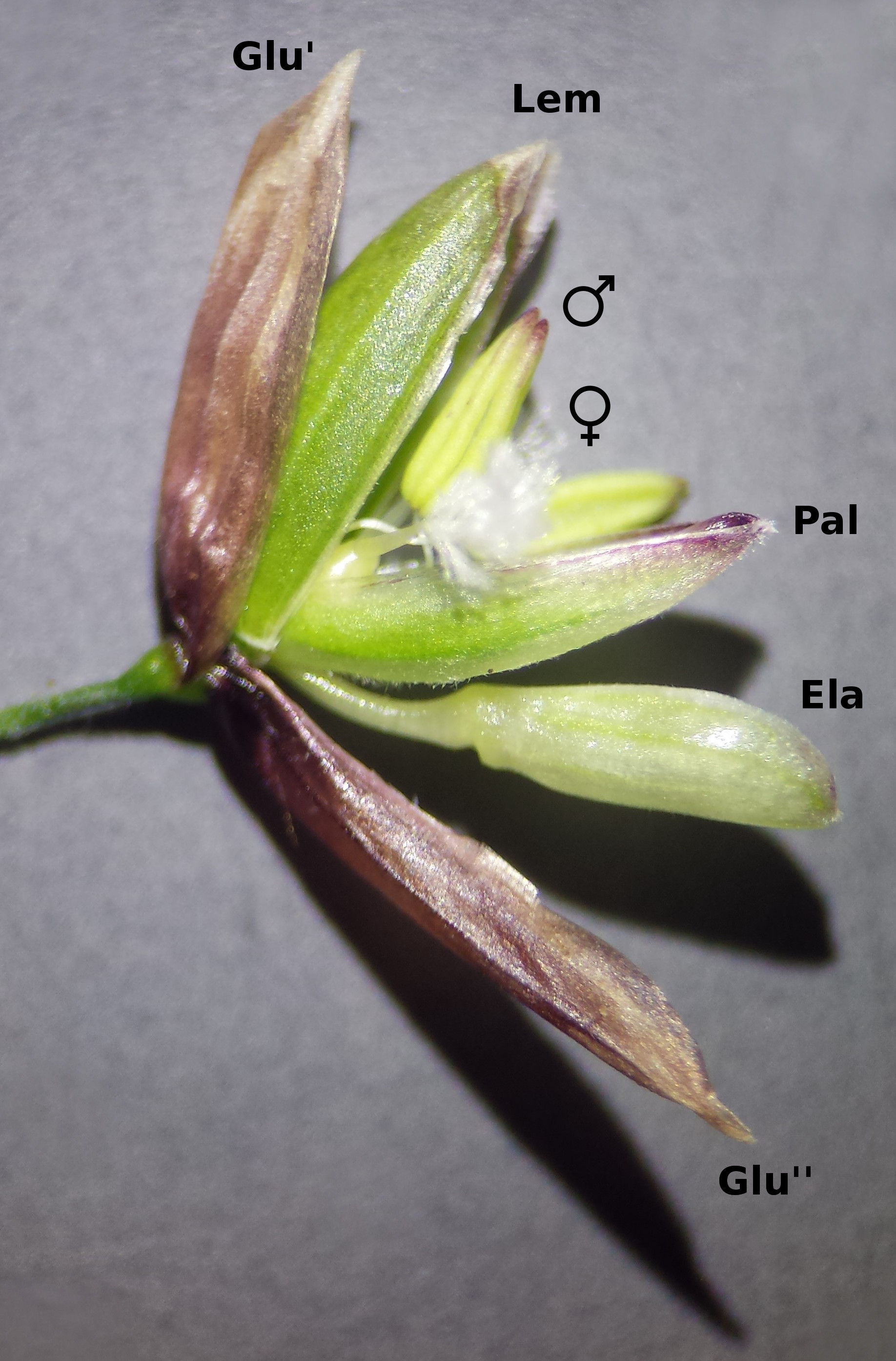 Spikelet Glu = Glumae Lem = Lemma Pal = Palea Ela = Elaiosome Taxonym: Melica uniflora ss Fischer et al. EfÖLS 2008 ISBN 978-3-85474-187-9 Location: Praunsberger Wald near Niederhollabrunn, district Korneuburg, Lower Austria - ca. 300 m a.s.l. Habitat: dedicious forest